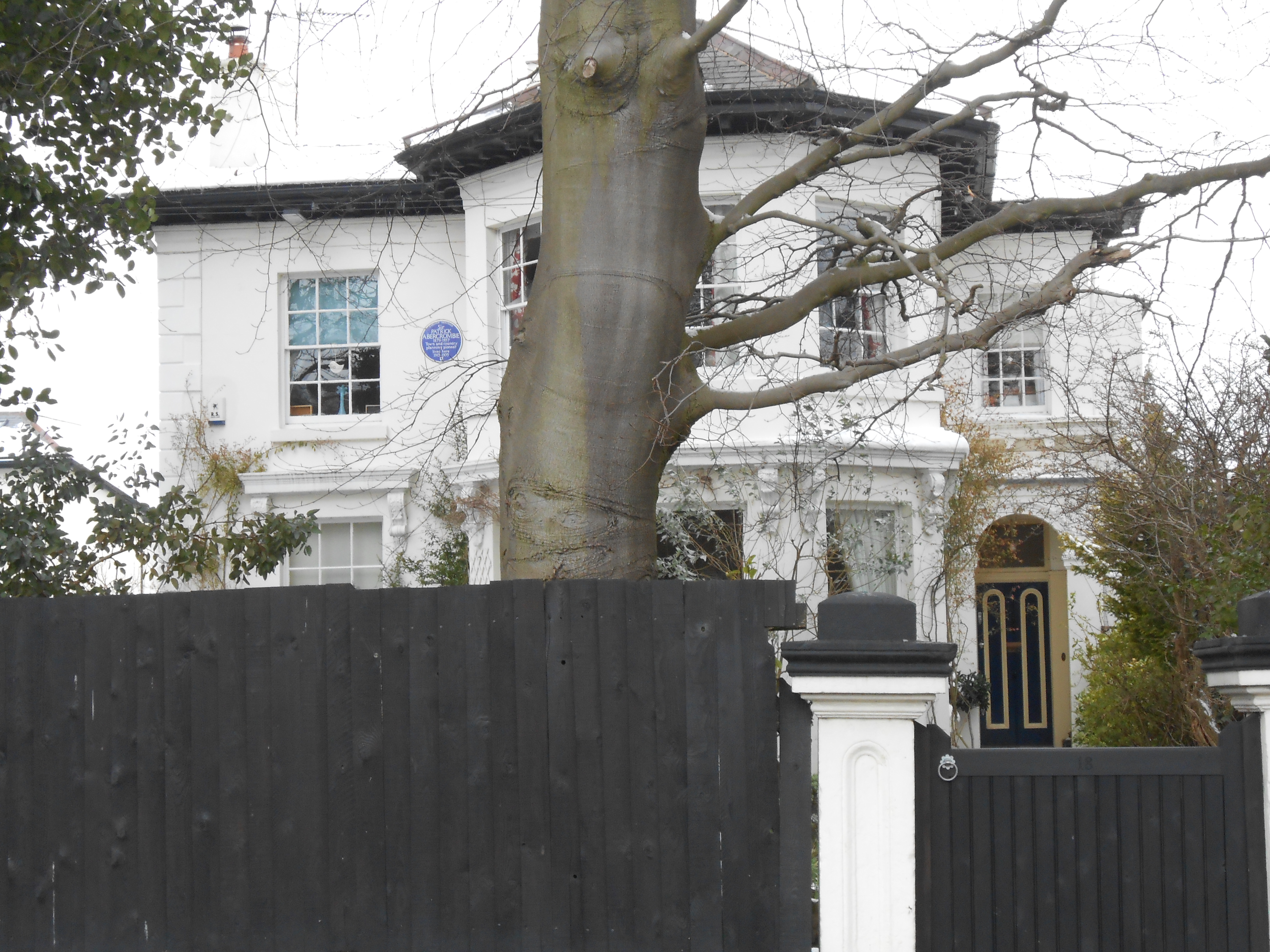 House formerly occupied by Sir Patrick Abercrombie (lived there 1915-1935), Village Road, Oxton, Birkenhead, Merseyside, England.